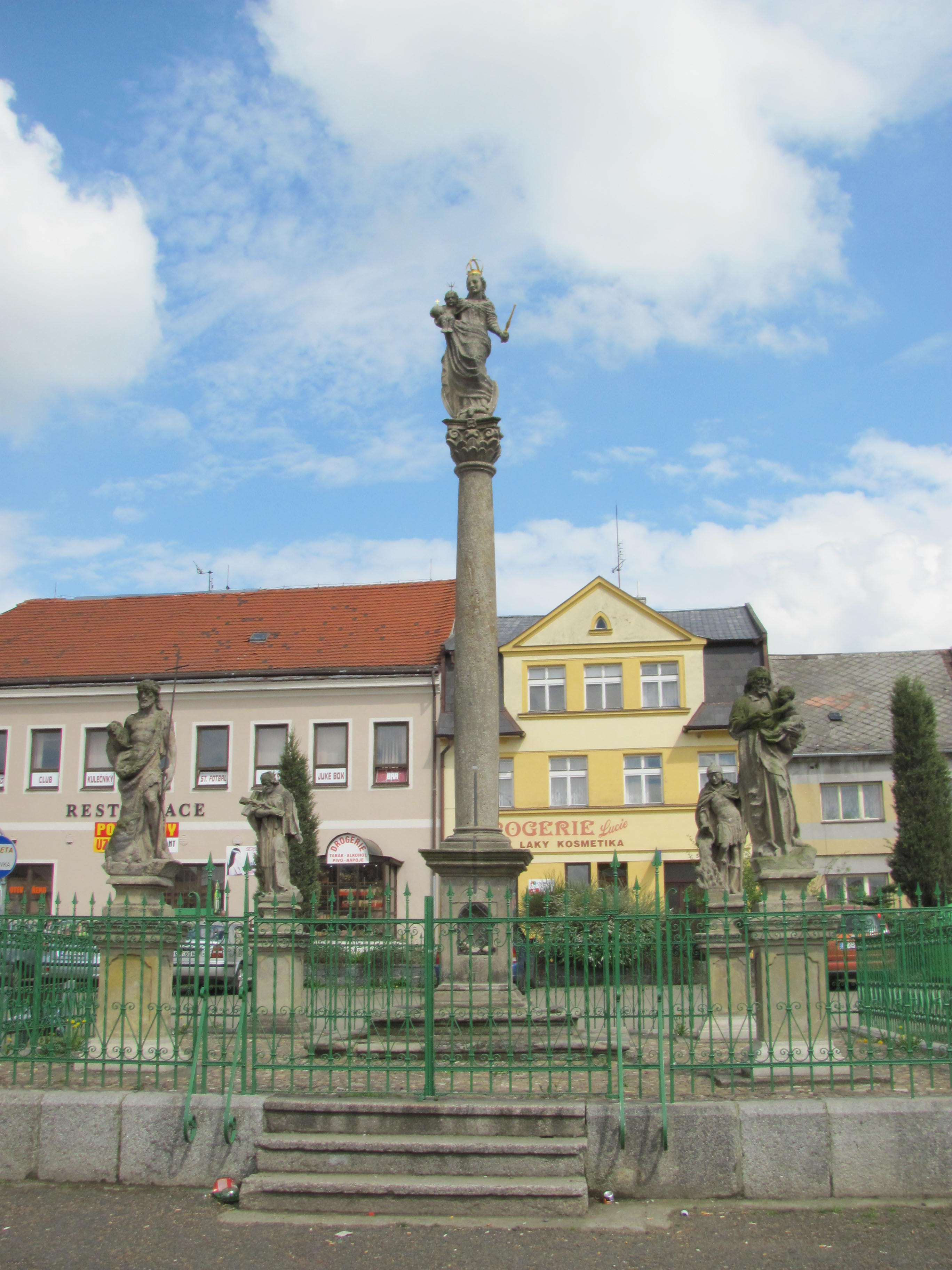 Maria column in Toužim